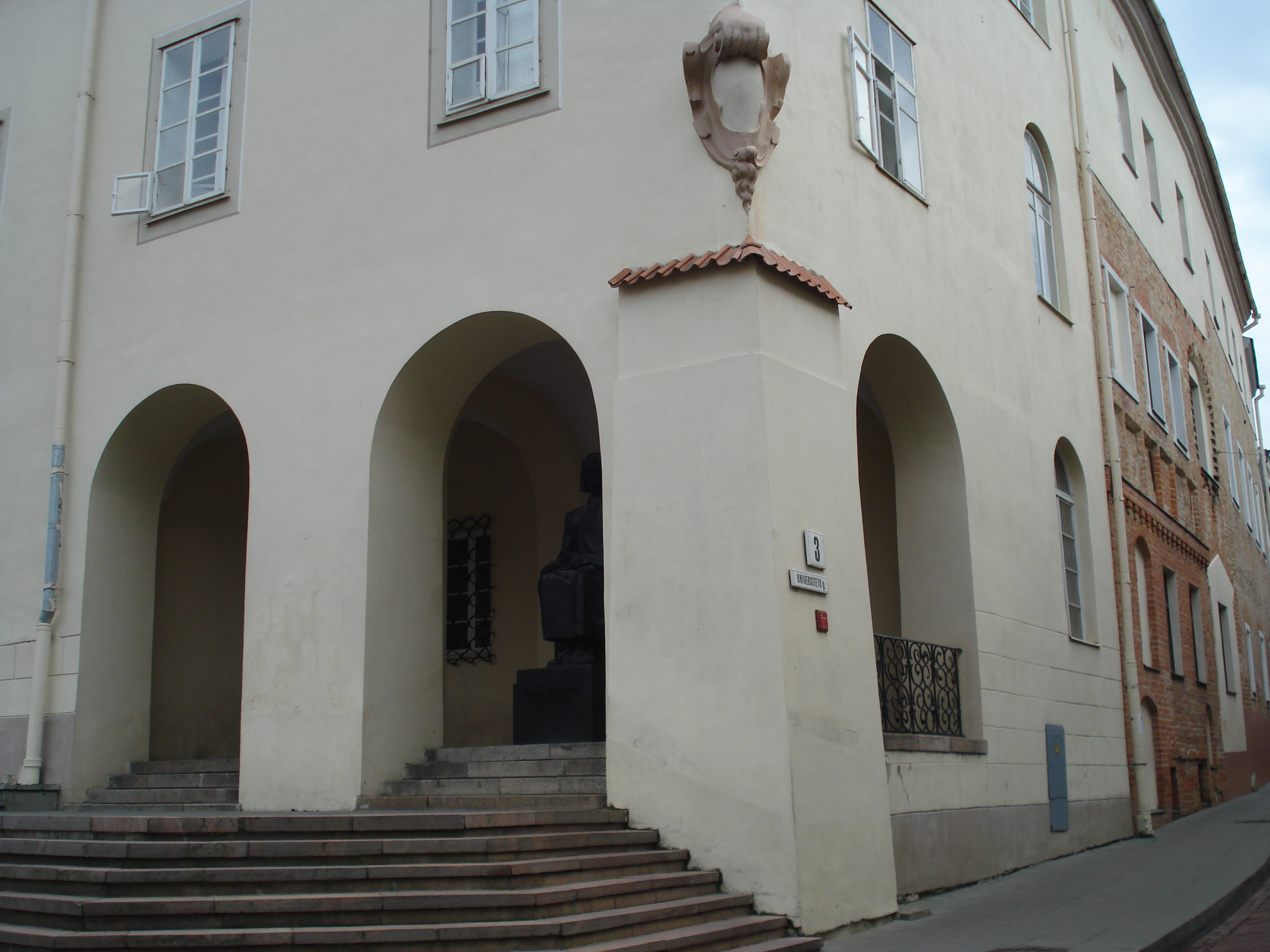 Arches on the corner of the main building of Vilnius University. Project by Stefan Narębski